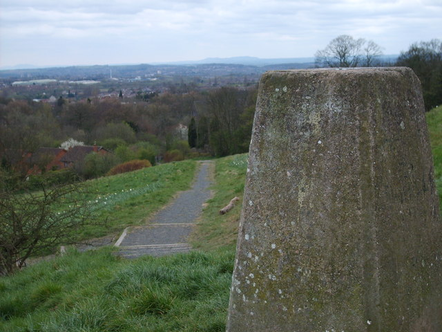 The Dudley Volcano The Barrow Hill Trigpoint.